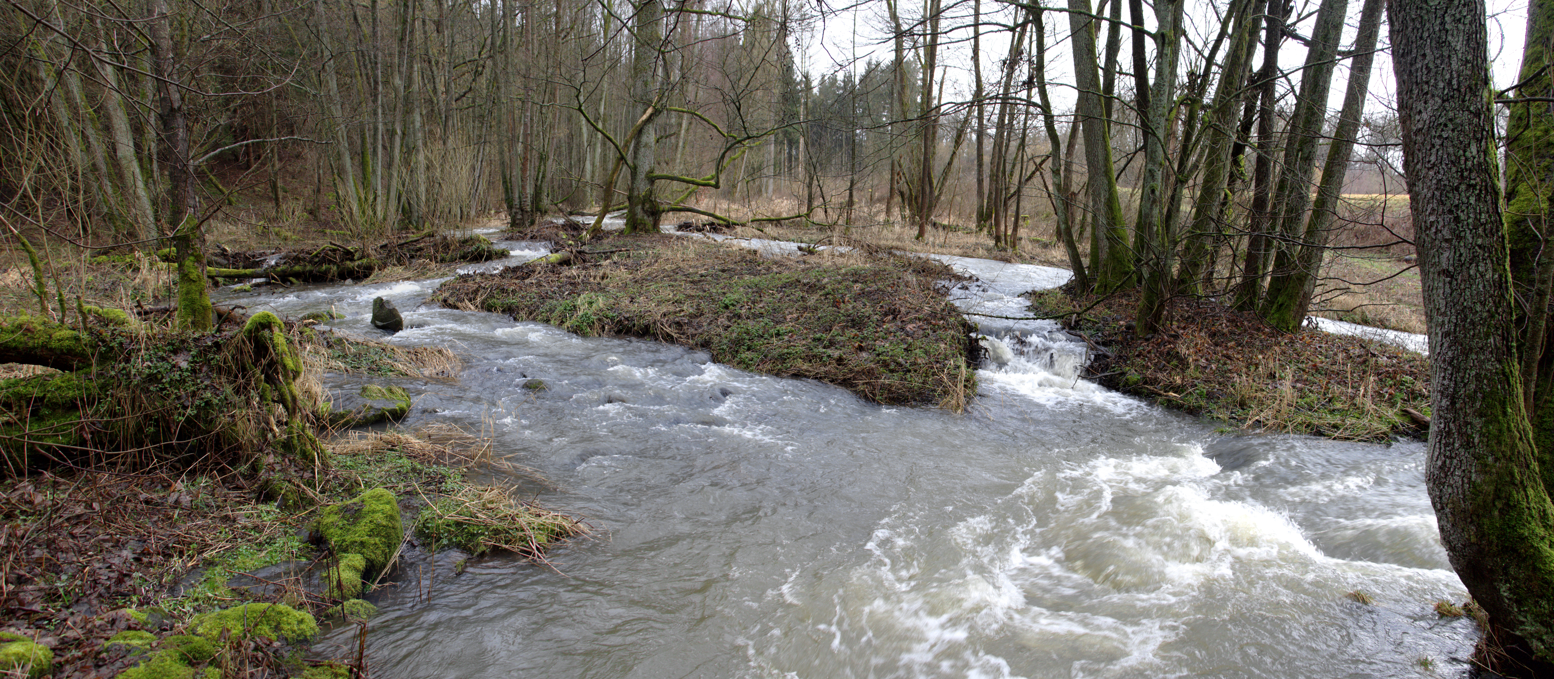 "Panoramic" view of Eisenbach (Stream) between Schloss Eisenbach and Blitzenrod, Special Areas of Conservation (FFH) No. 5322-306 , Lauterbach, Hesse, Germany